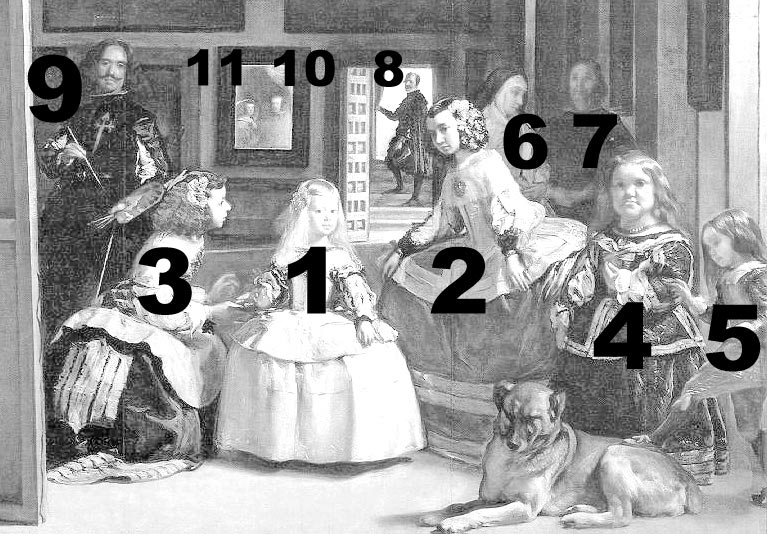 Key to Las Meninas by Diego Velázquez. Background is from Las Meninas painted in 1656 and hence out of copyright. (1) Margarita Teresa of Spain, Infanta Margarita (Spanish: Infanta Margarita Teresa de España) (2) doña Isabel de Velasco (3) doña María Agustina Sarmiento de Sotomayor (4) the dwarf German, Maribarbola (Maria Barbola) (5) the dwarf Italian, Nicolas Pertusato (6) doña Marcela de Ulloa (7) unidentified bodyguard (guardadamas) (8) Don José Nieto Velázquez (9) Velázquez (10) King Philip IV reflected in mirror (11) Mariana, queen of King Philip, reflected in mirror